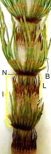 Vegetative stem: N(ode) I(internode) B(ranch in whorl) L(=fused microphylls) Digi-photo taken by User:Menchi